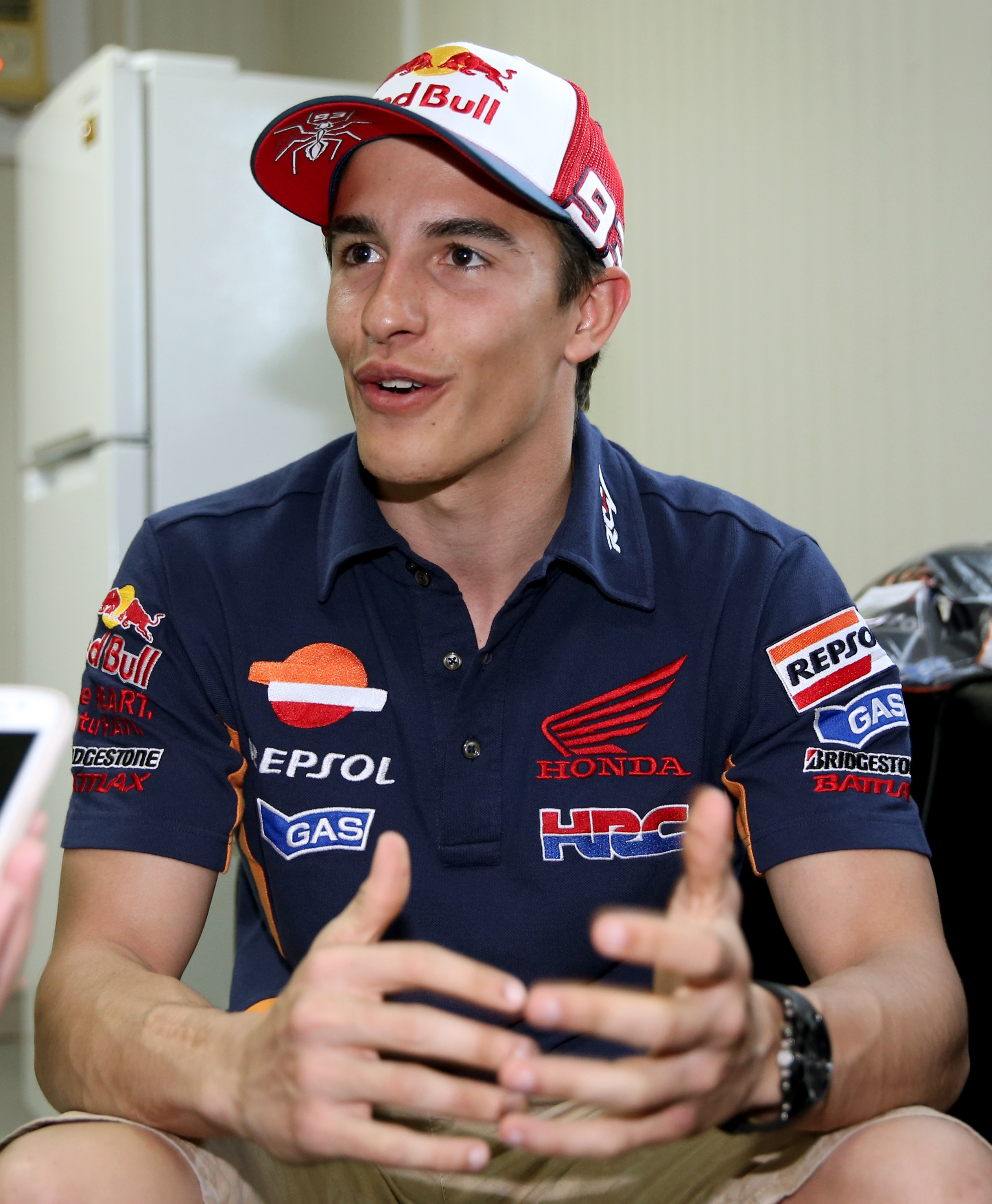 Reigning Spanish MotoGP world champion Marc Marquez during an interactive session in Doha.